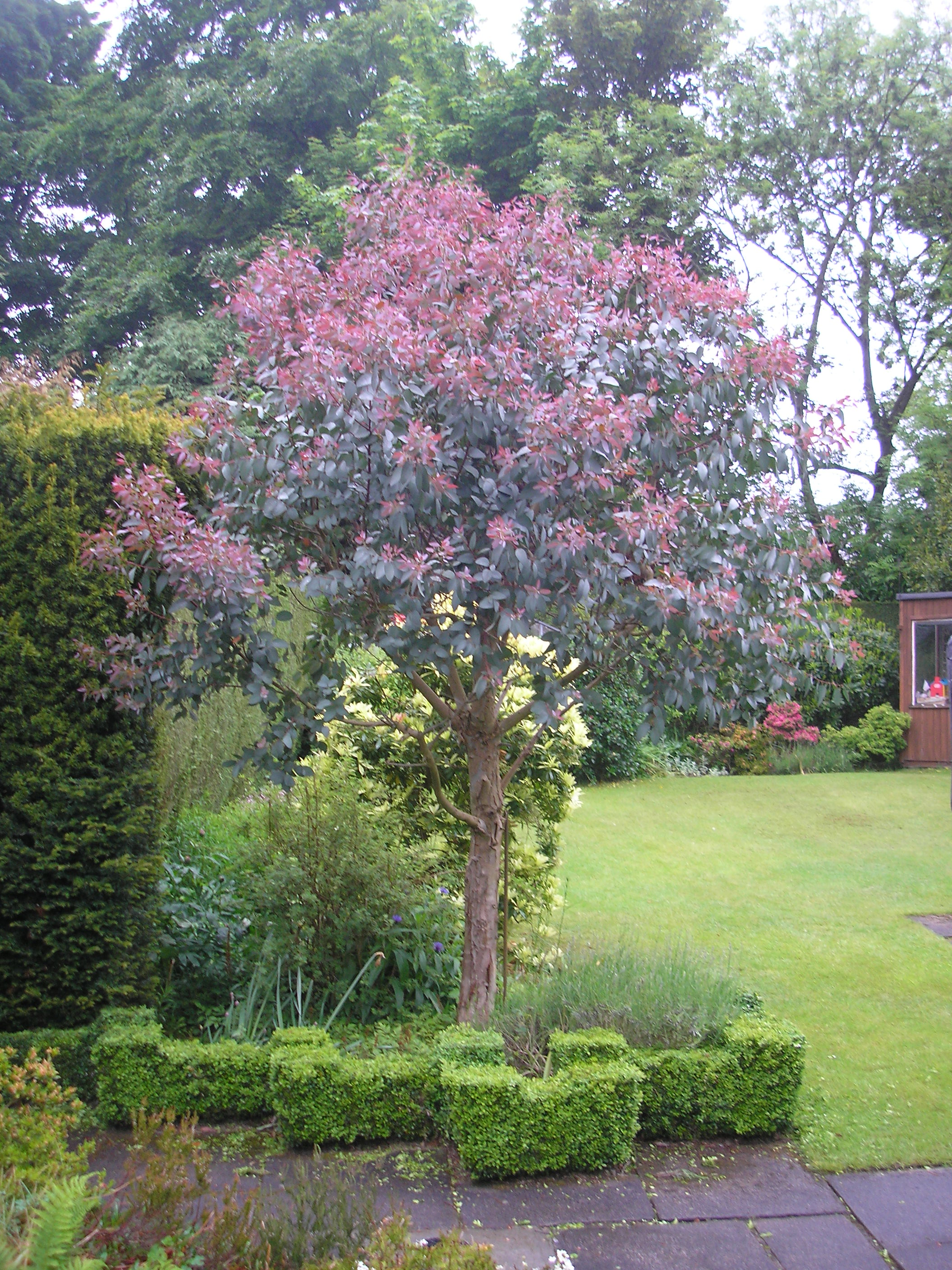 In Aberdeen, Scotland